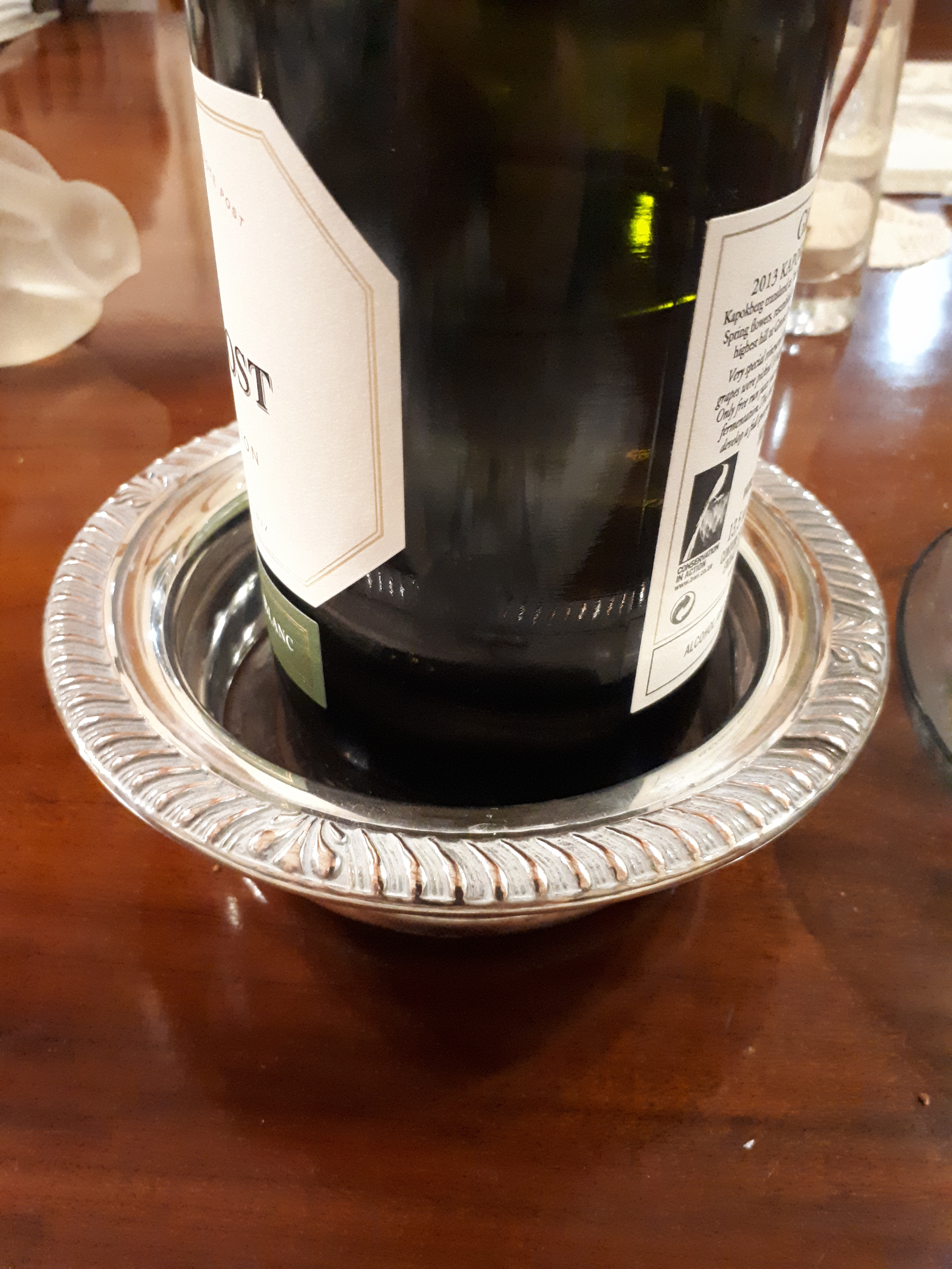 Silver "bowl" for a wine bottle, what is its proper name?